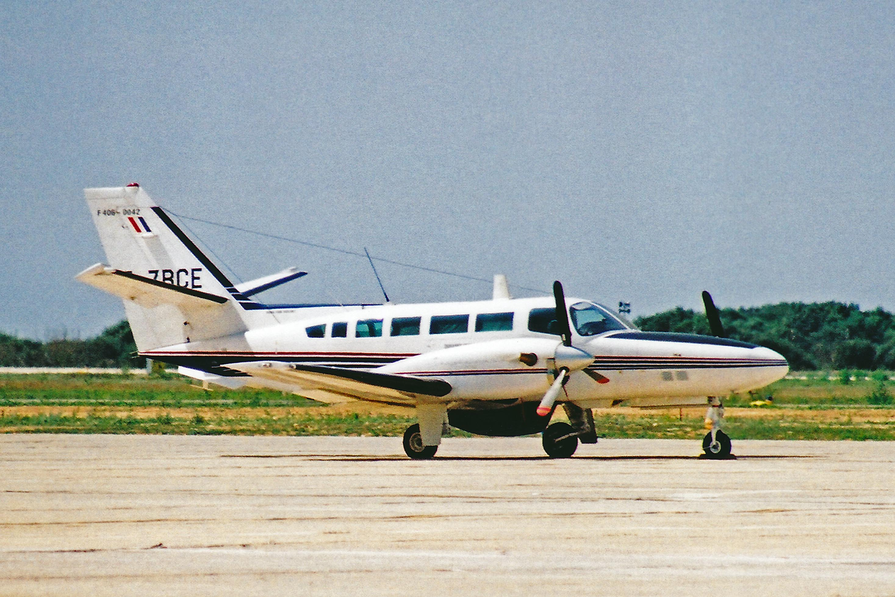 A picture of an airplane (name of it is on the file name).